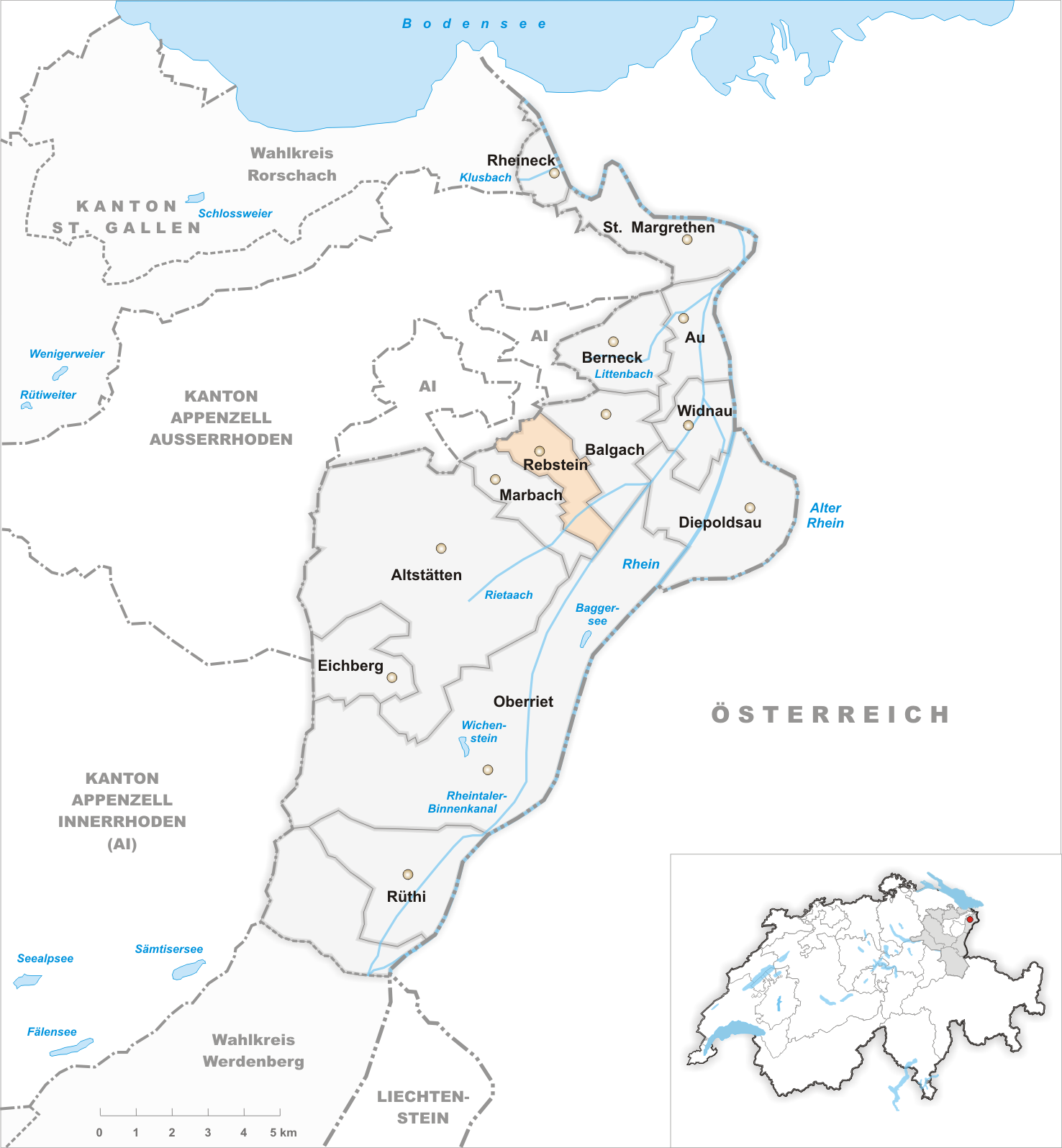 Municipality Rebstein